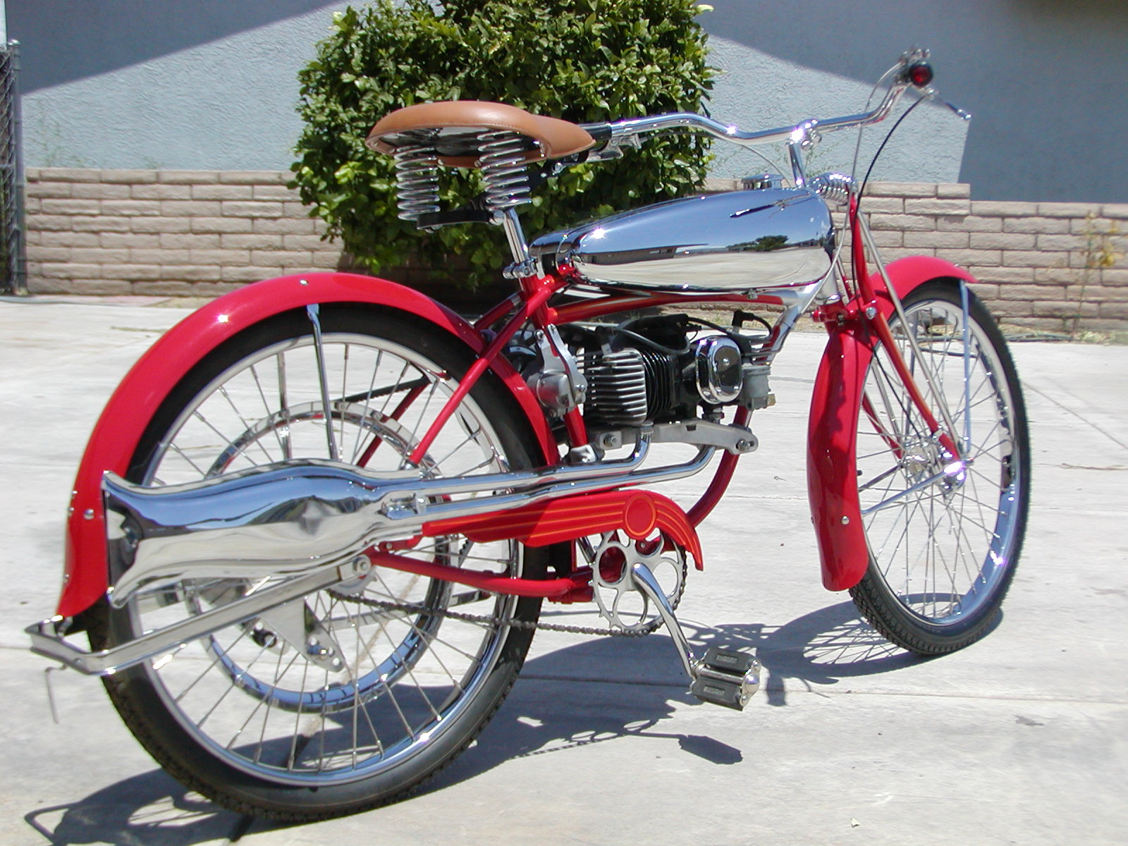 Image of rare Marman motorized bicycle.